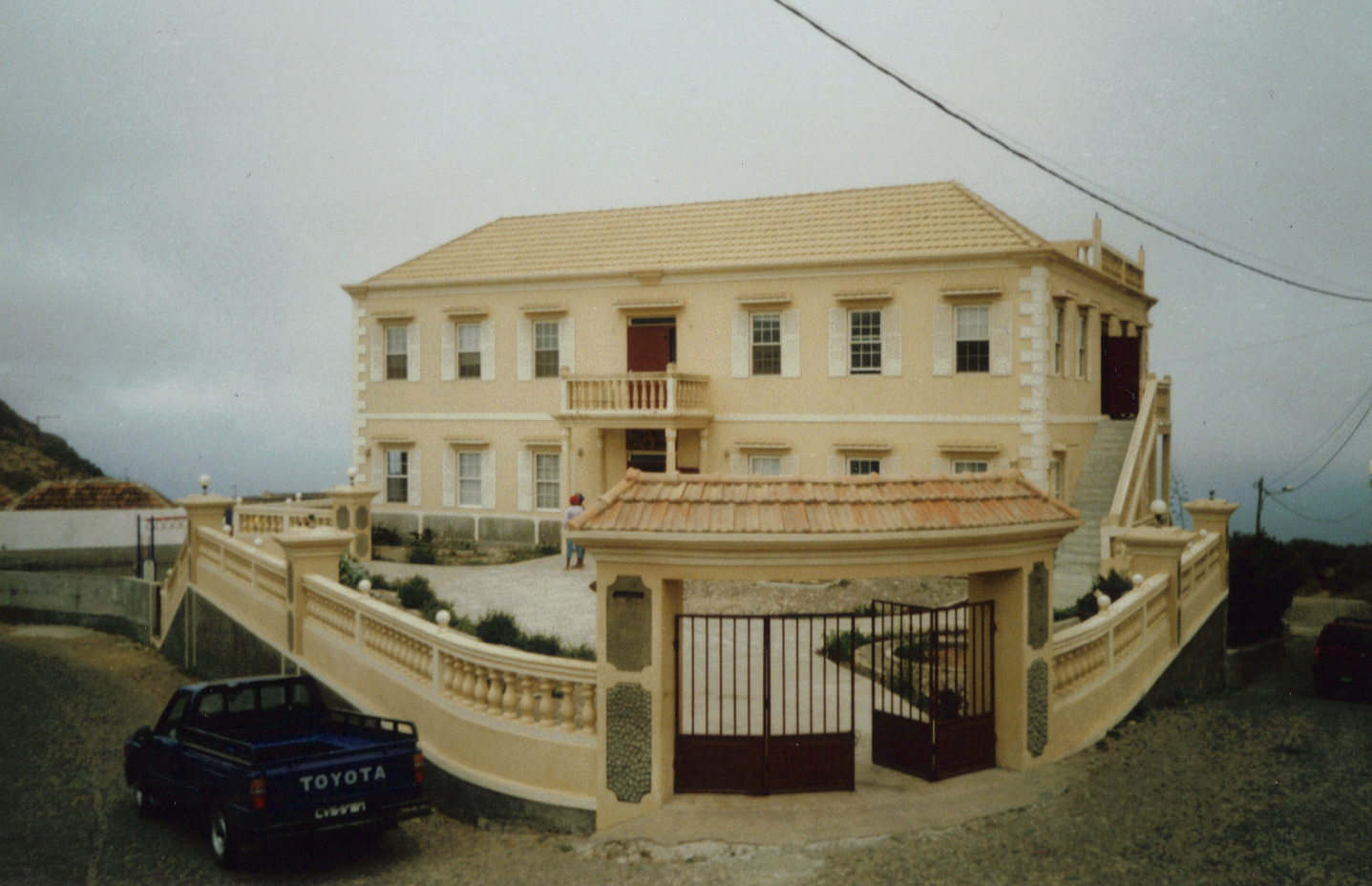 School in Nossa Senhora do Monte, Brava, Cabo Verde